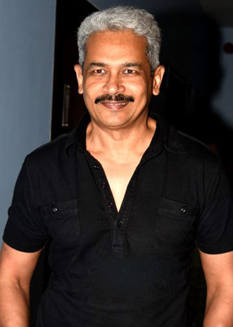 Atul Kulkarni graces the screening of Sonata